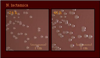 An image of the culture of Neisseria lactamica at 24 and then 48 hours from the Centers for Disease Control